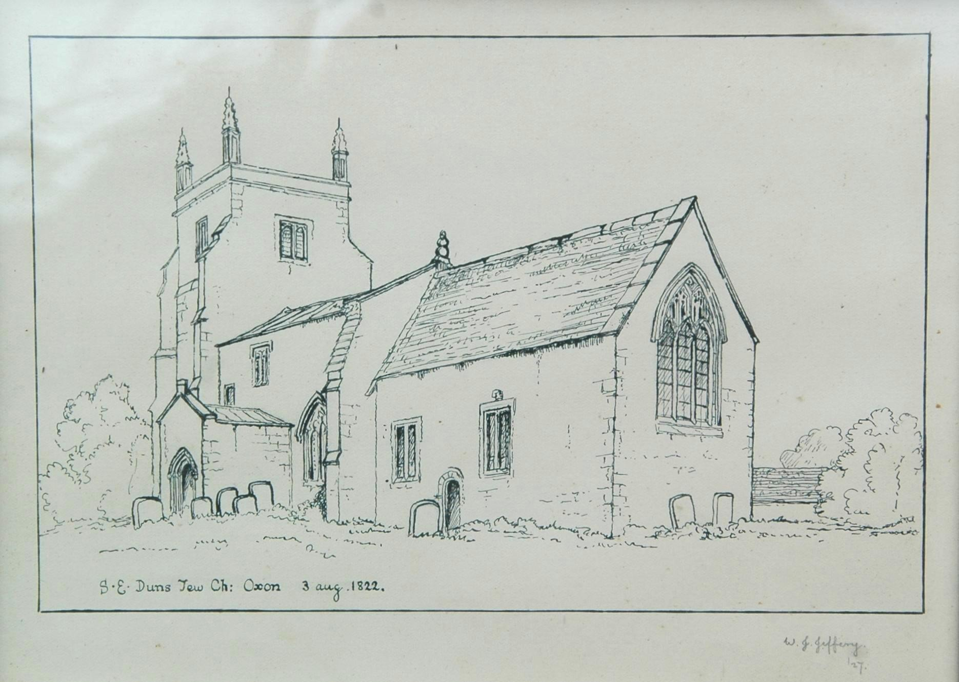 Church of England parish church of St Mary, Duns Tew, Oxfordshire: photograph of sketch view from the southwest dated 1822